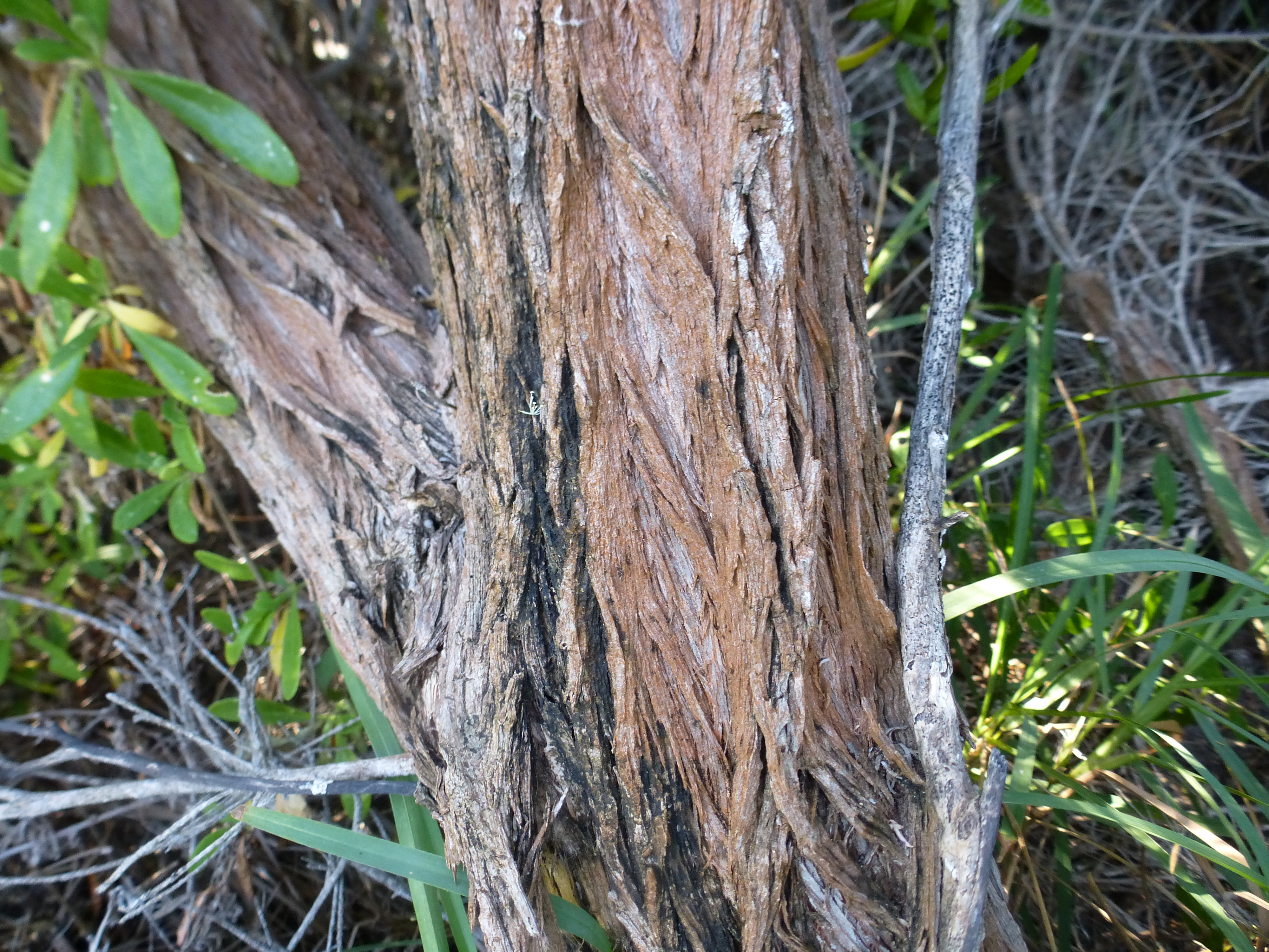 Melaleuca microphylla growing at Bettys Beach near Albany